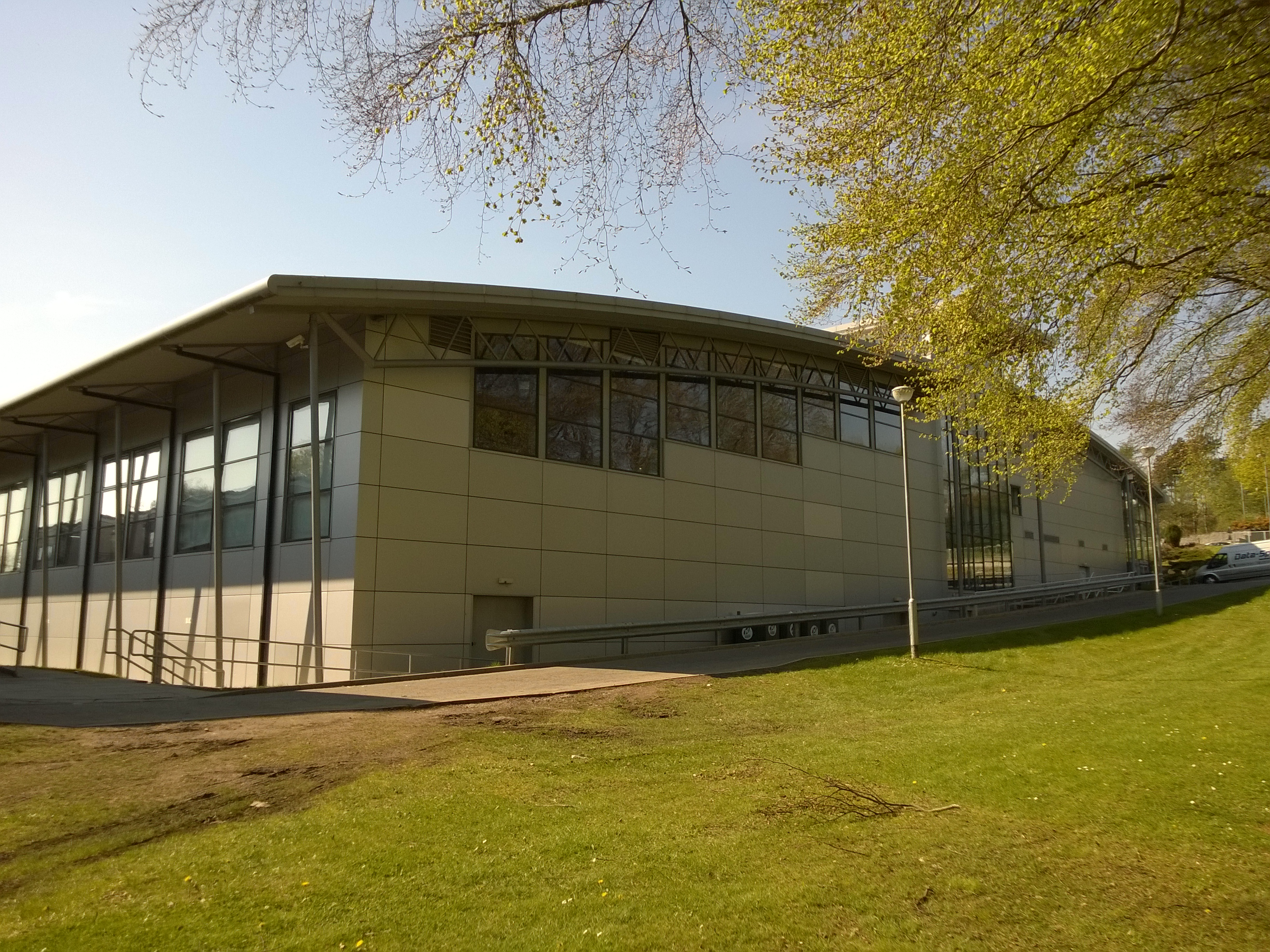 The Robert Gordon University, Aberdeen, Scotland: The RGU Sport building is the main campus sport and fitness centre.